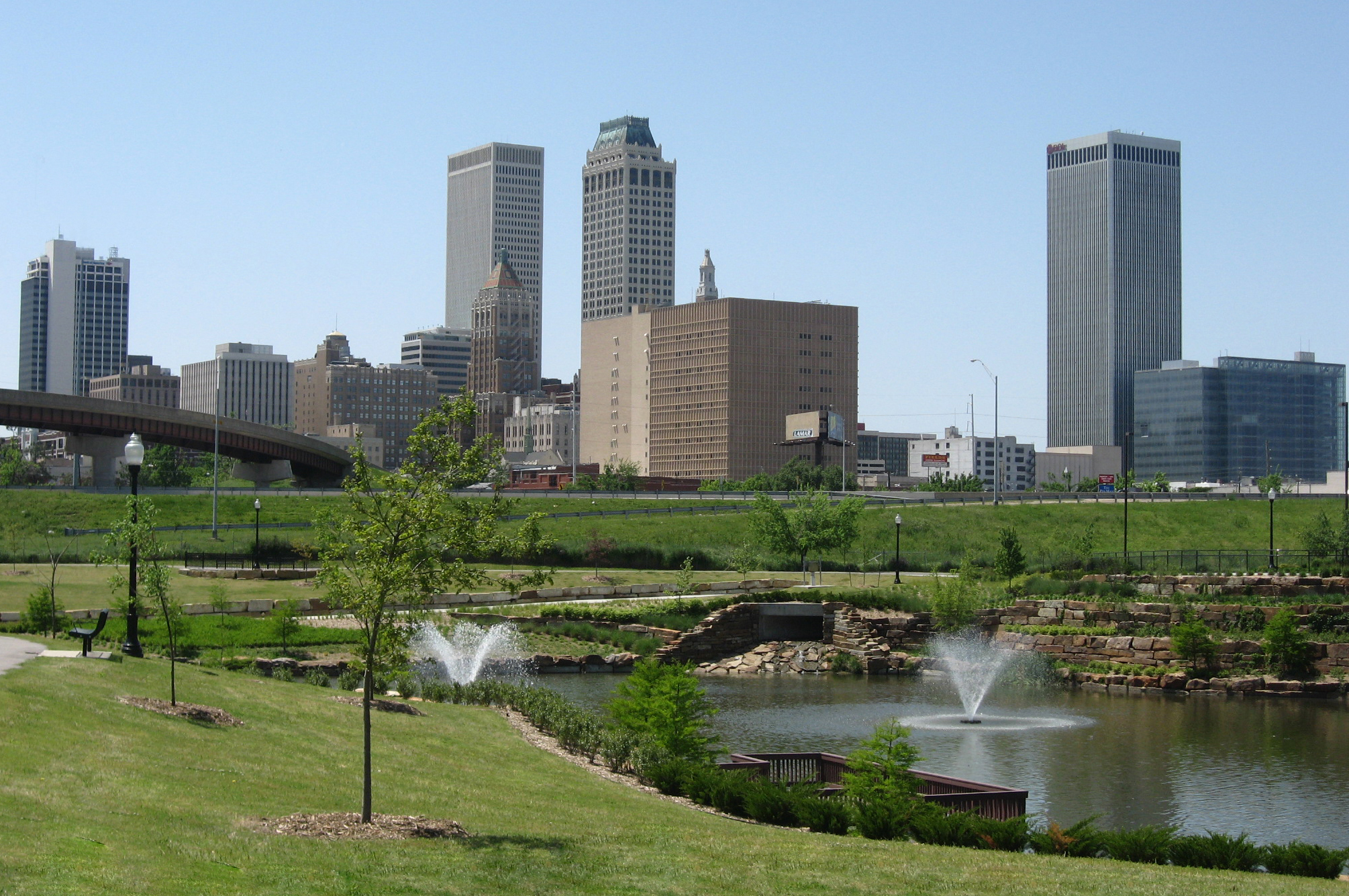 The skyline of downtown Tulsa, Oklahoma, in May 2008.